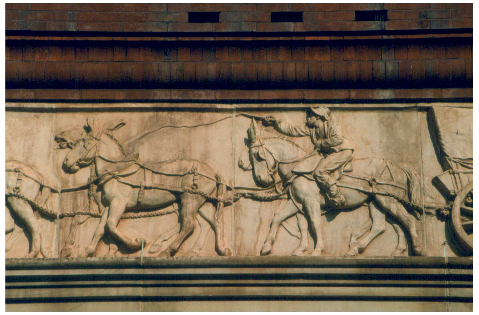 photo by Einar Einarsson Kvaran, 2005, for Montgomery C. Meigs and Caspar Buberl